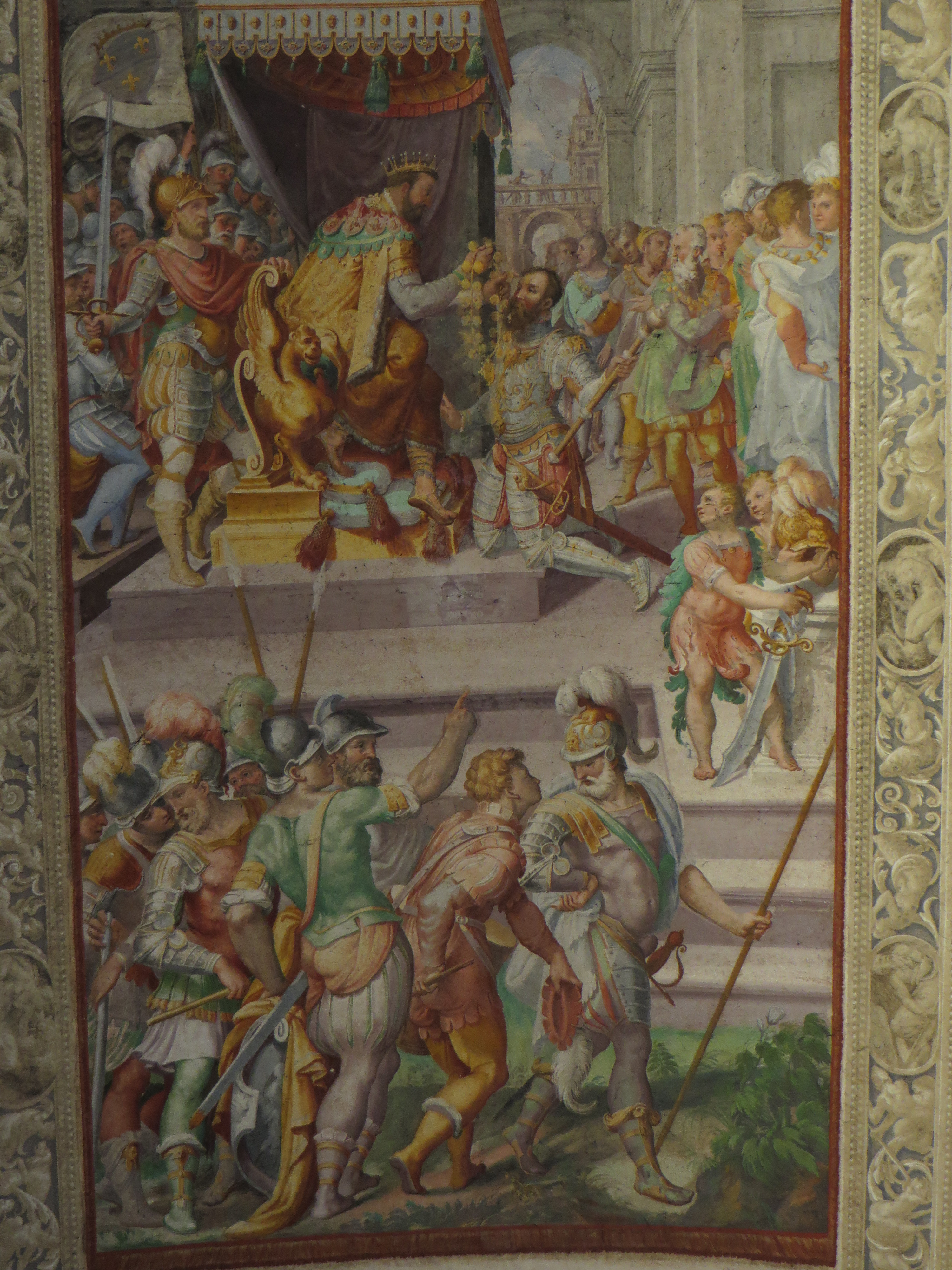 castle